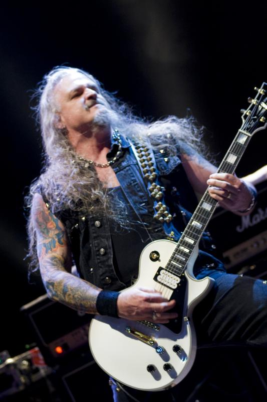 Jon Schaffer performing with Iced Earth in São Paulo, Brasil.